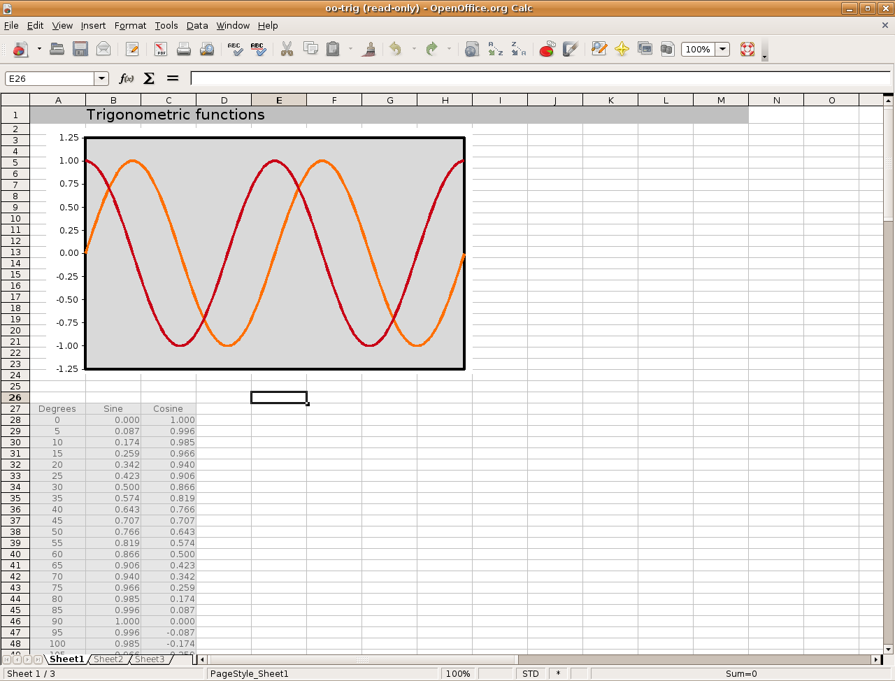 Calc 2.2 running onUbuntu Linux Feisty Fawn